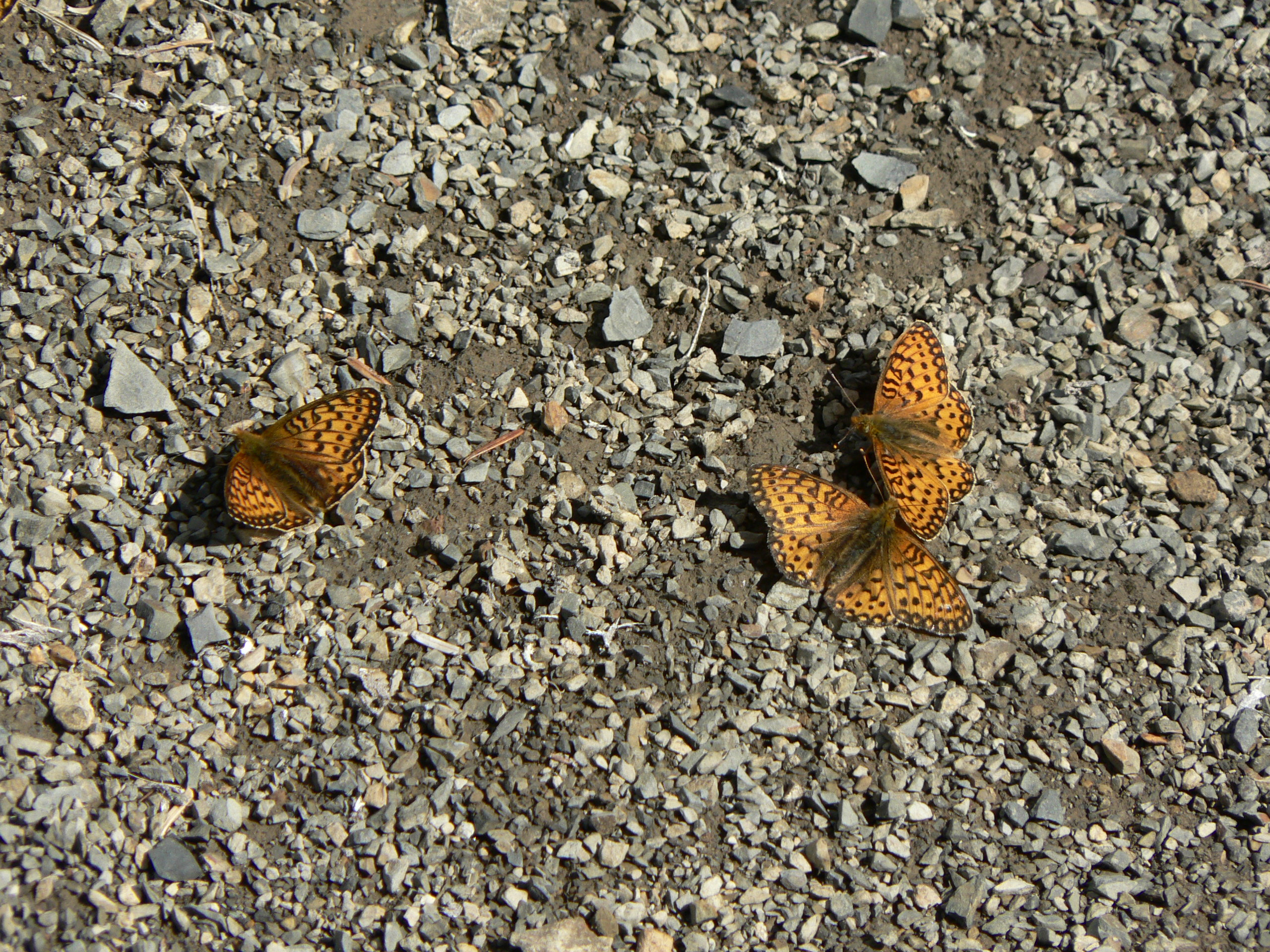 Mormon Fritillary